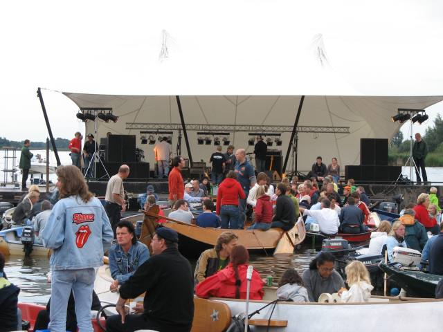 Drijf-In Blues Festival te Giethoorn